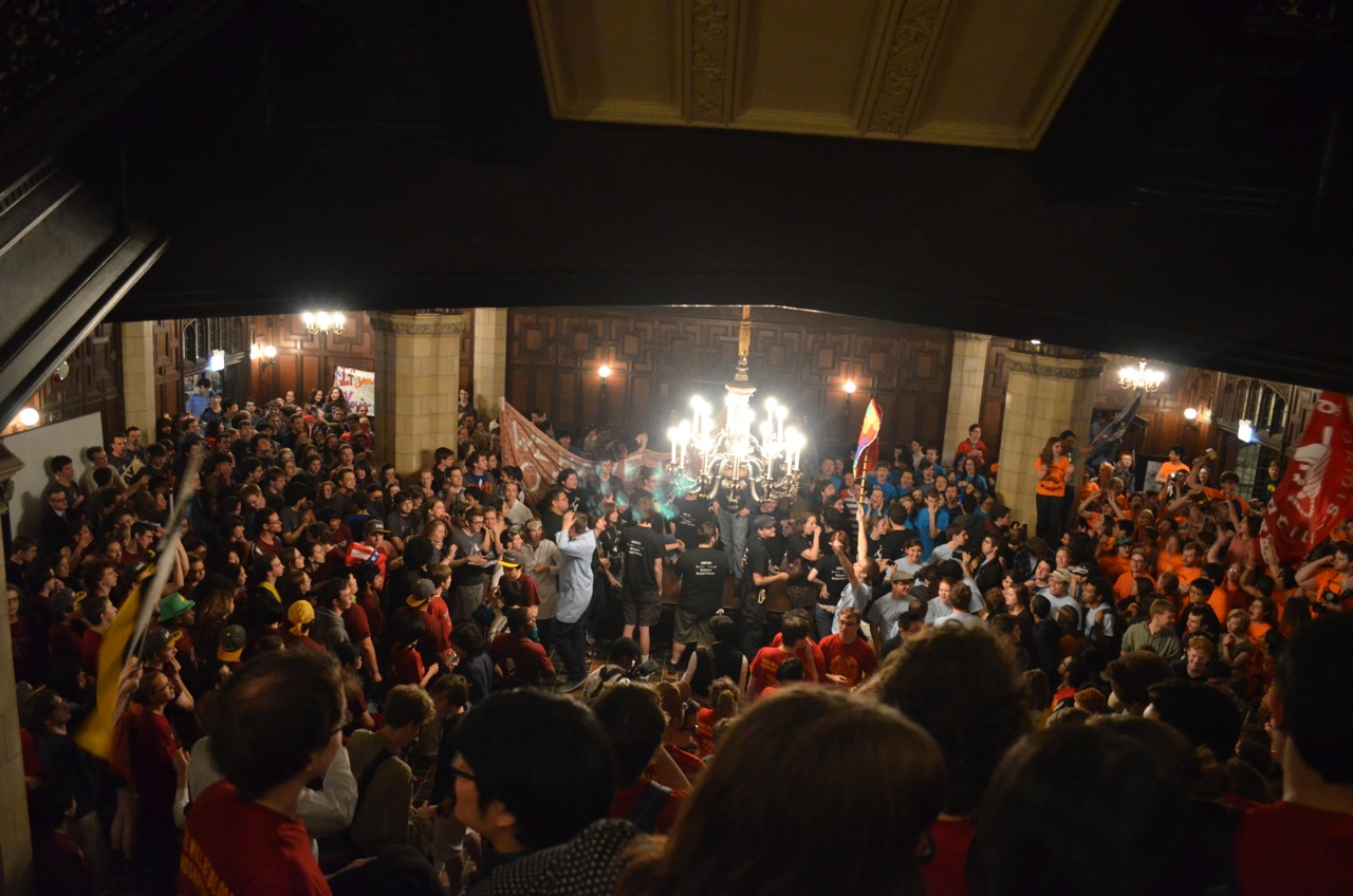 Every year, the University of Chicago Scavenger Hunt begins with List Release, held in Ida Noyes hall on UChicago's campus. This is a picture from the 2013 iteration of List Release.